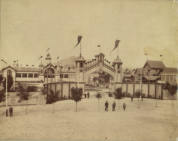 International Fair Plovdiv, Bulgaria, 1892